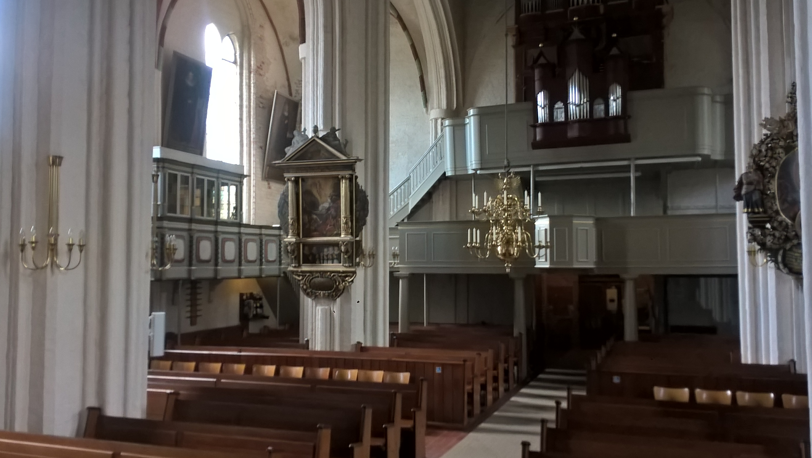 Stadtkirche Neustadt in Holstein